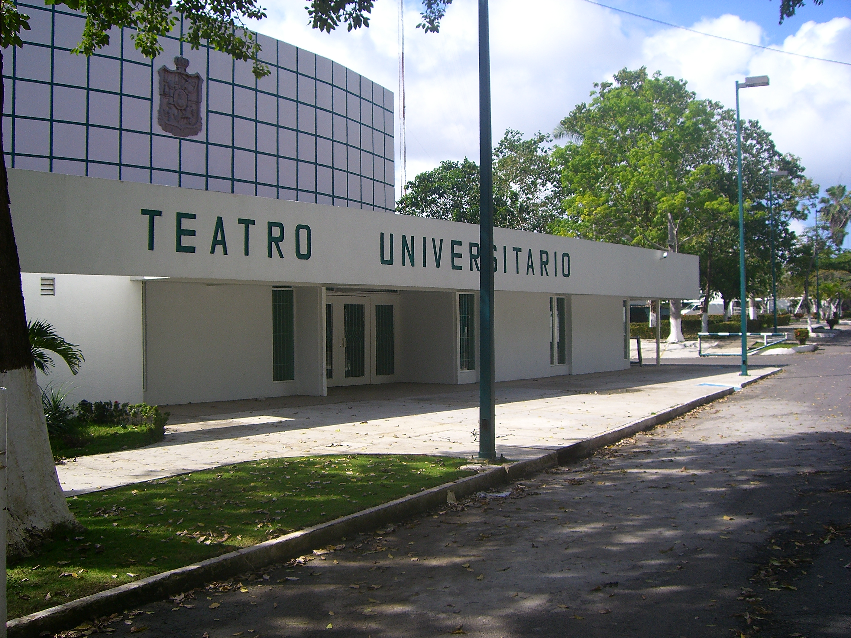 Universidad Juarez Autonoma de Tabasco